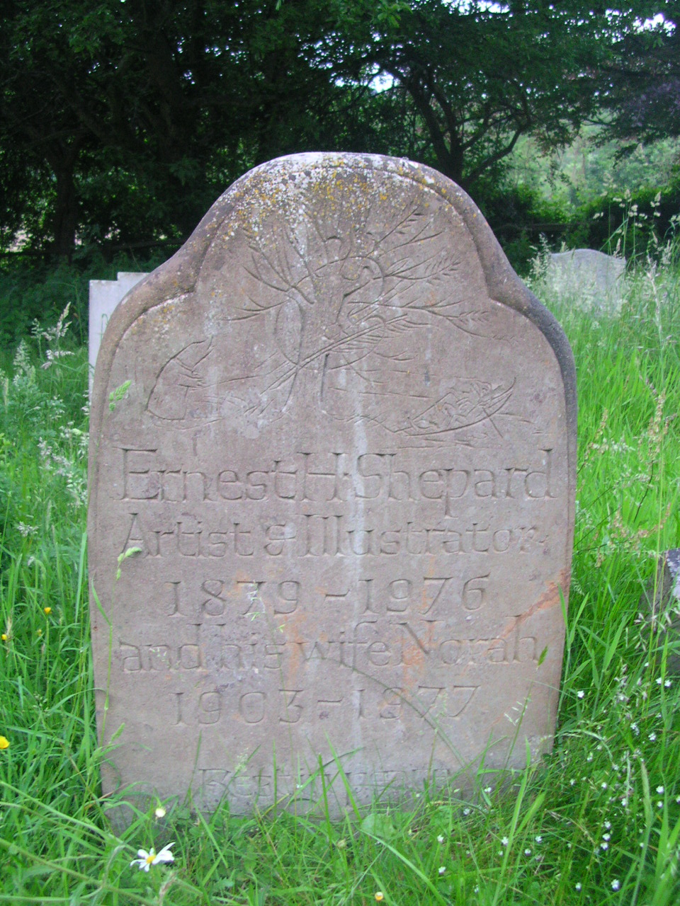 E H Shepard's grave at Lodsworth churchyard, West Sussex, England.